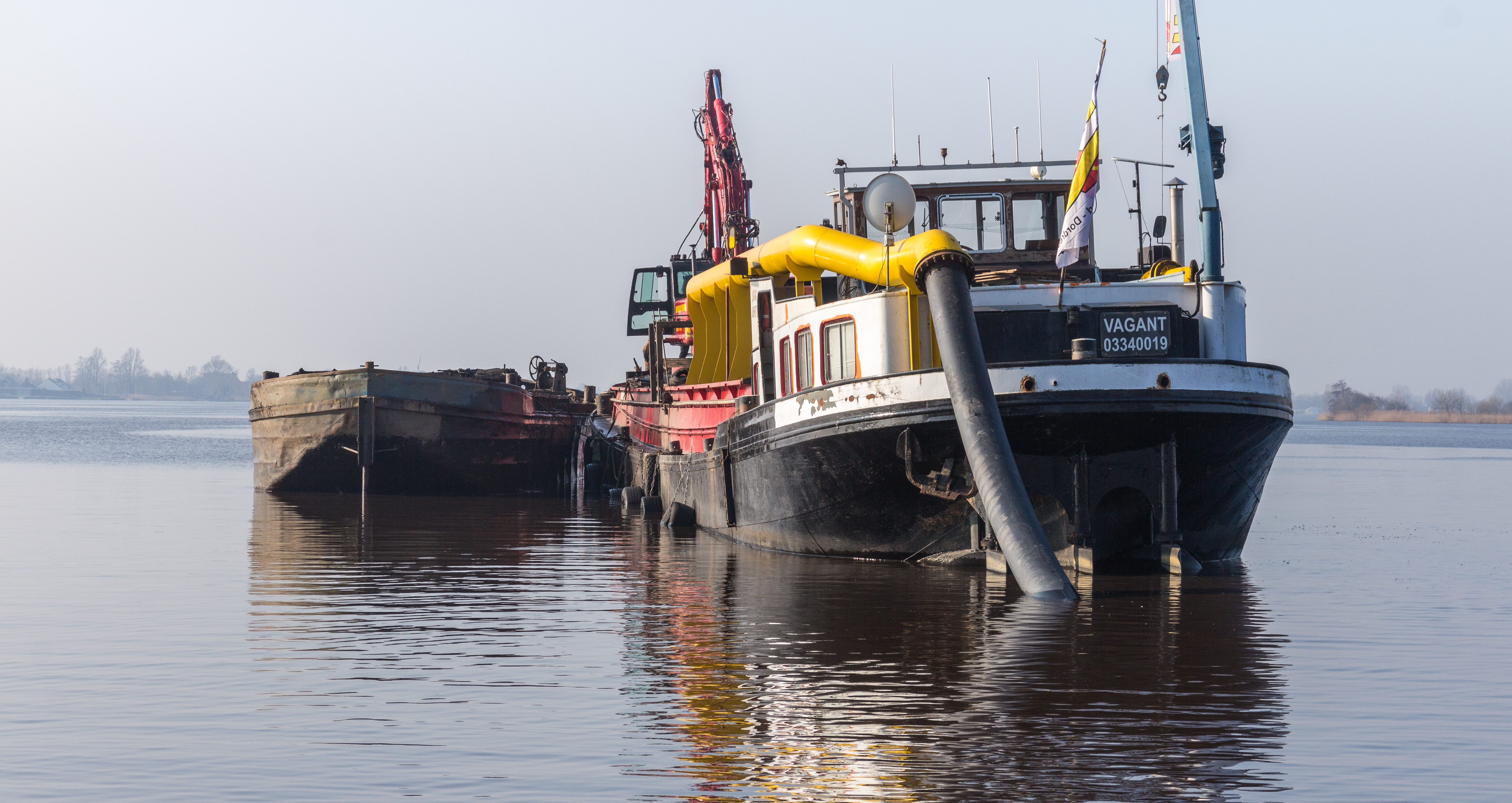 Dredging activities on the Langwarder Wheels. Dredging work from Motorschip Vagant.